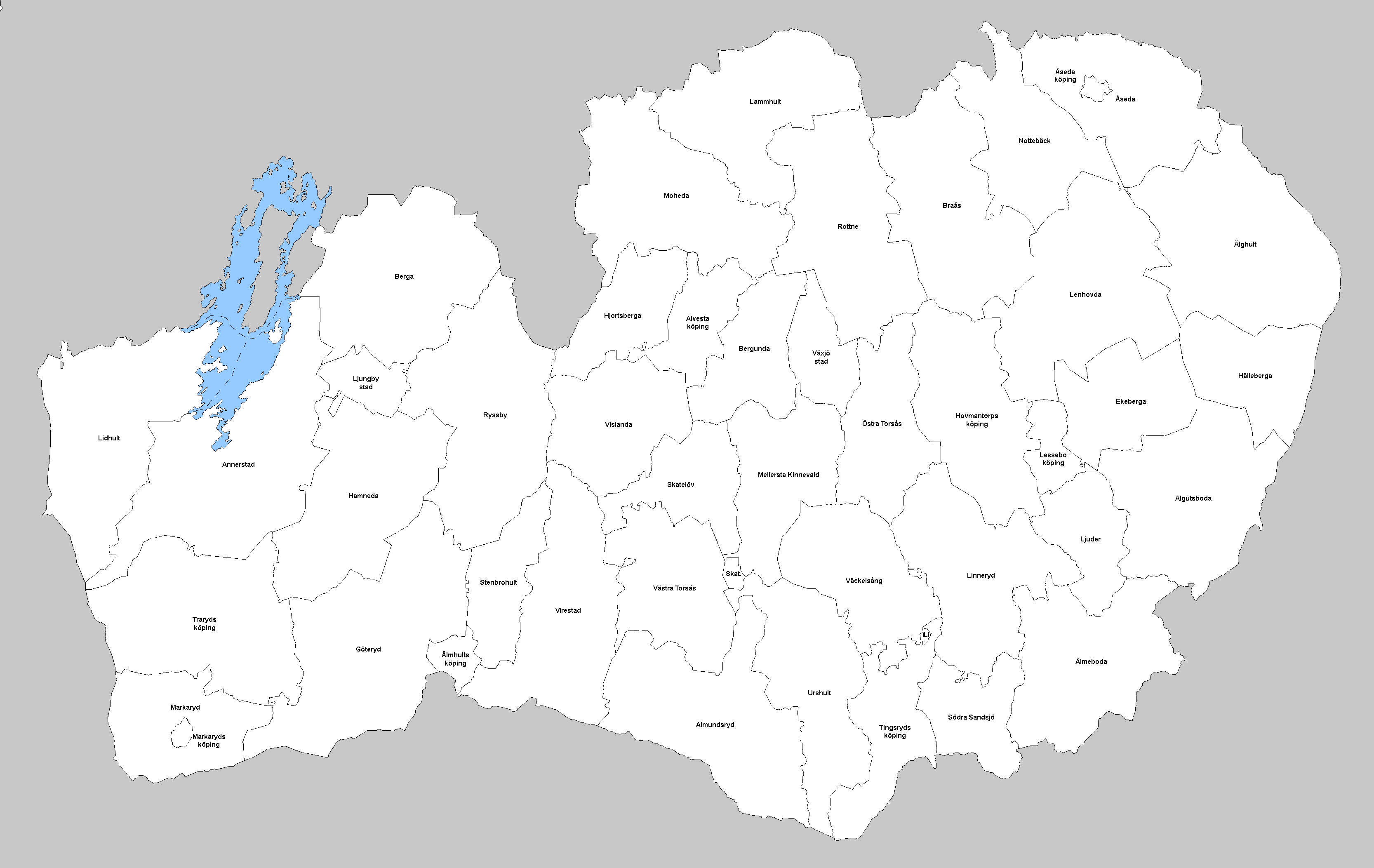 Old municipalities of Kronoberg, from 1952.